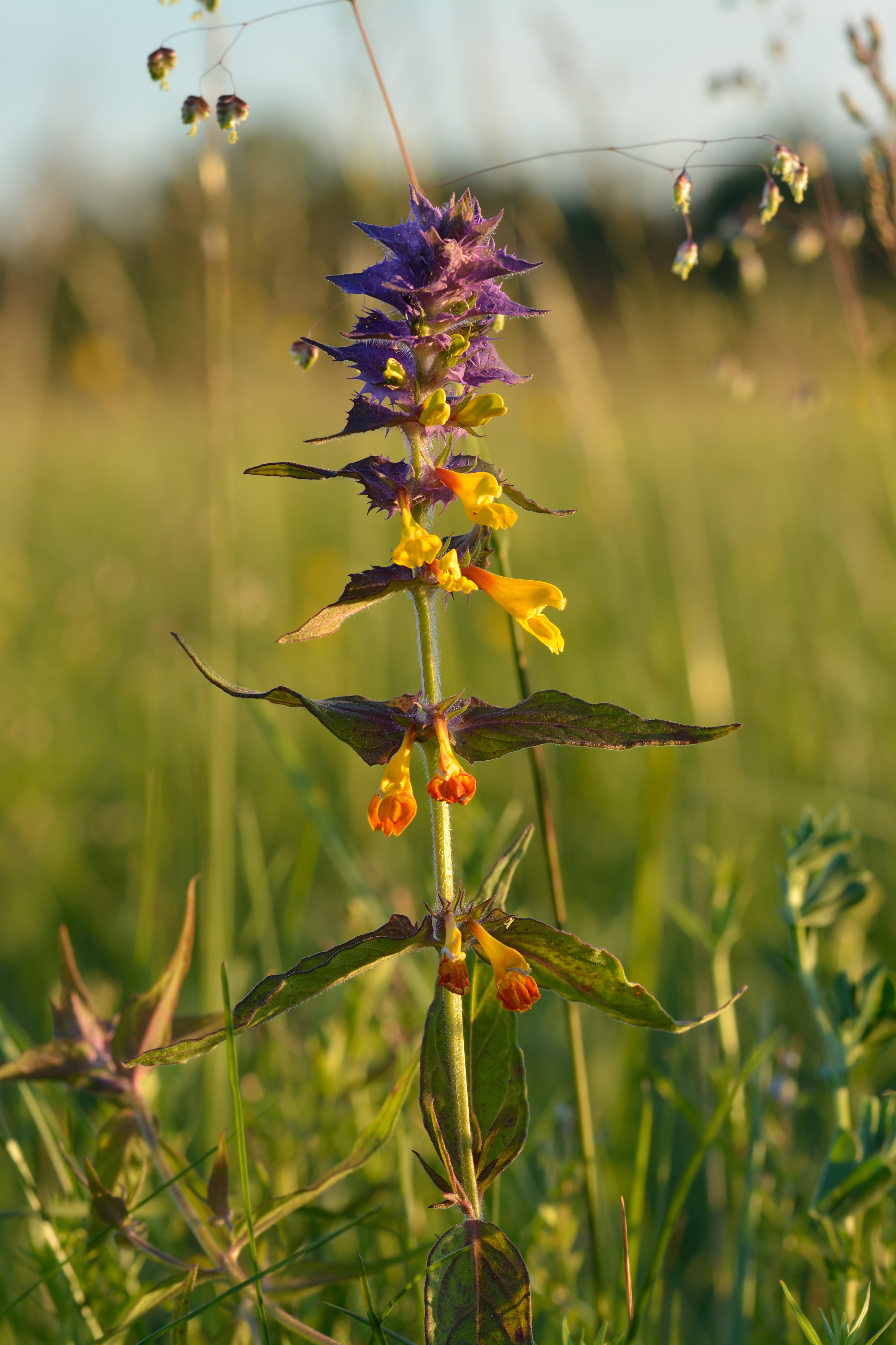 Wood Cow-wheat (Melampyrum nemorosum). Alvar in Keila, Estonia.